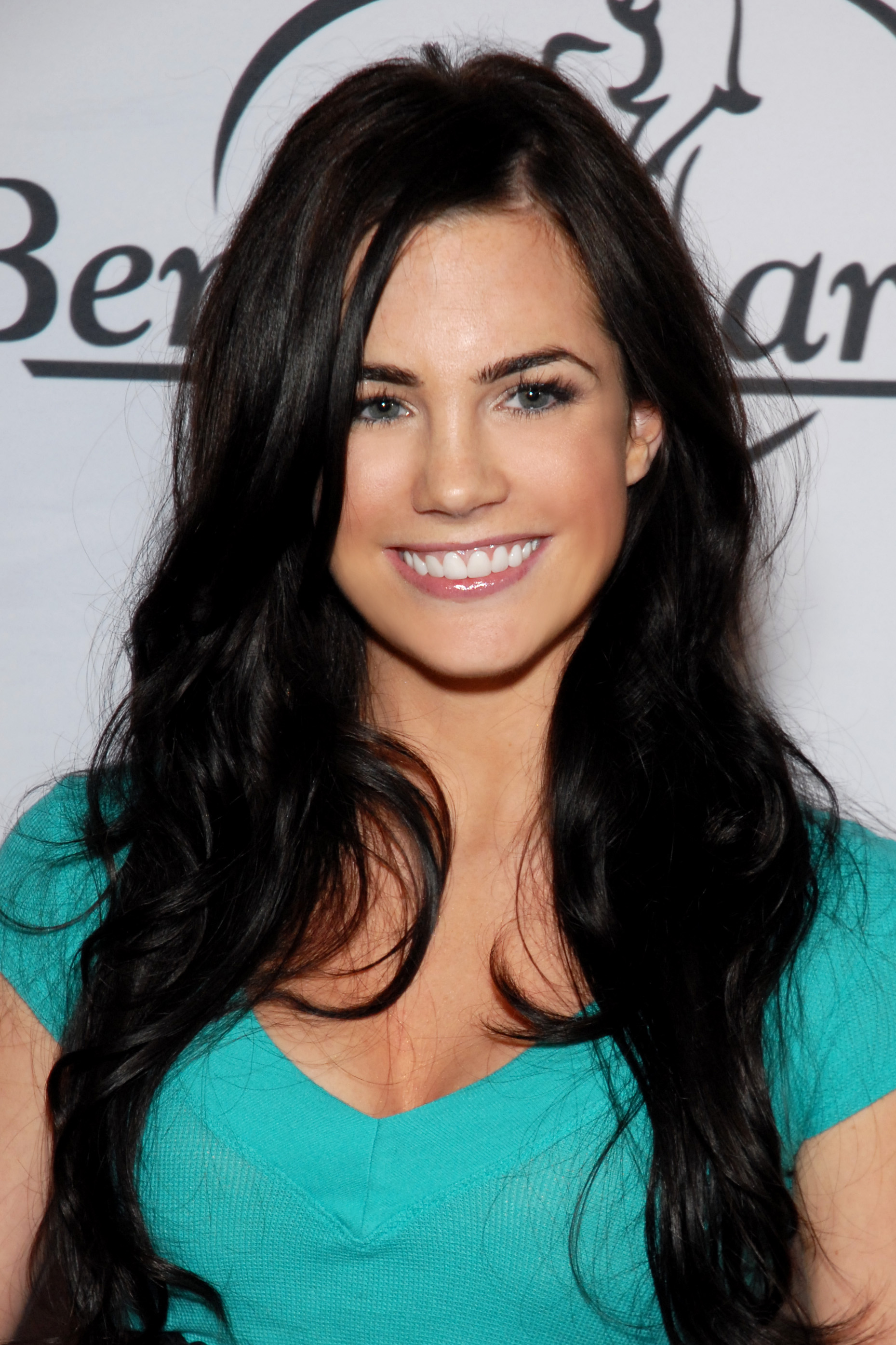 Jillian Murray attending the Benchwarmer Valentines Party at Area, Hollywood, CA on 02/12/2008 - Photo by Glenn Francis of